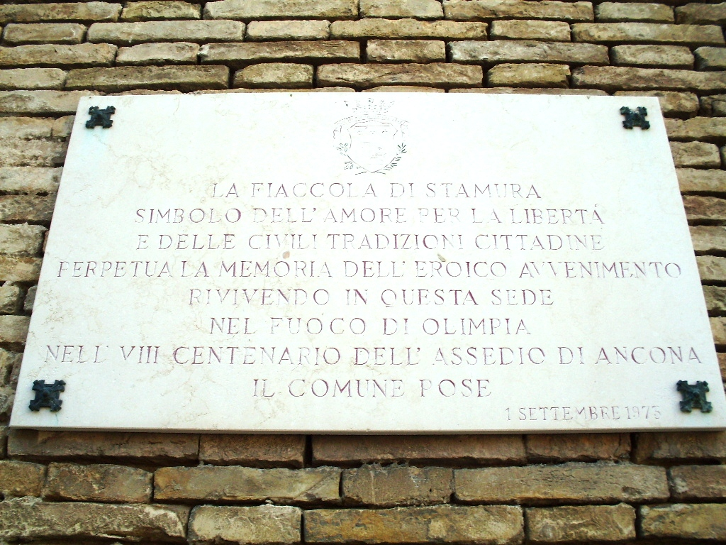 Italy Ancona - Mole Vanvitelliana - Stamira inscription